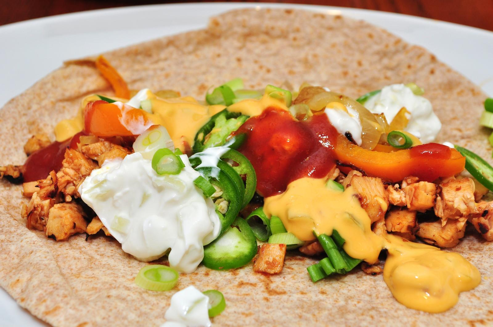 Chicken fajitas